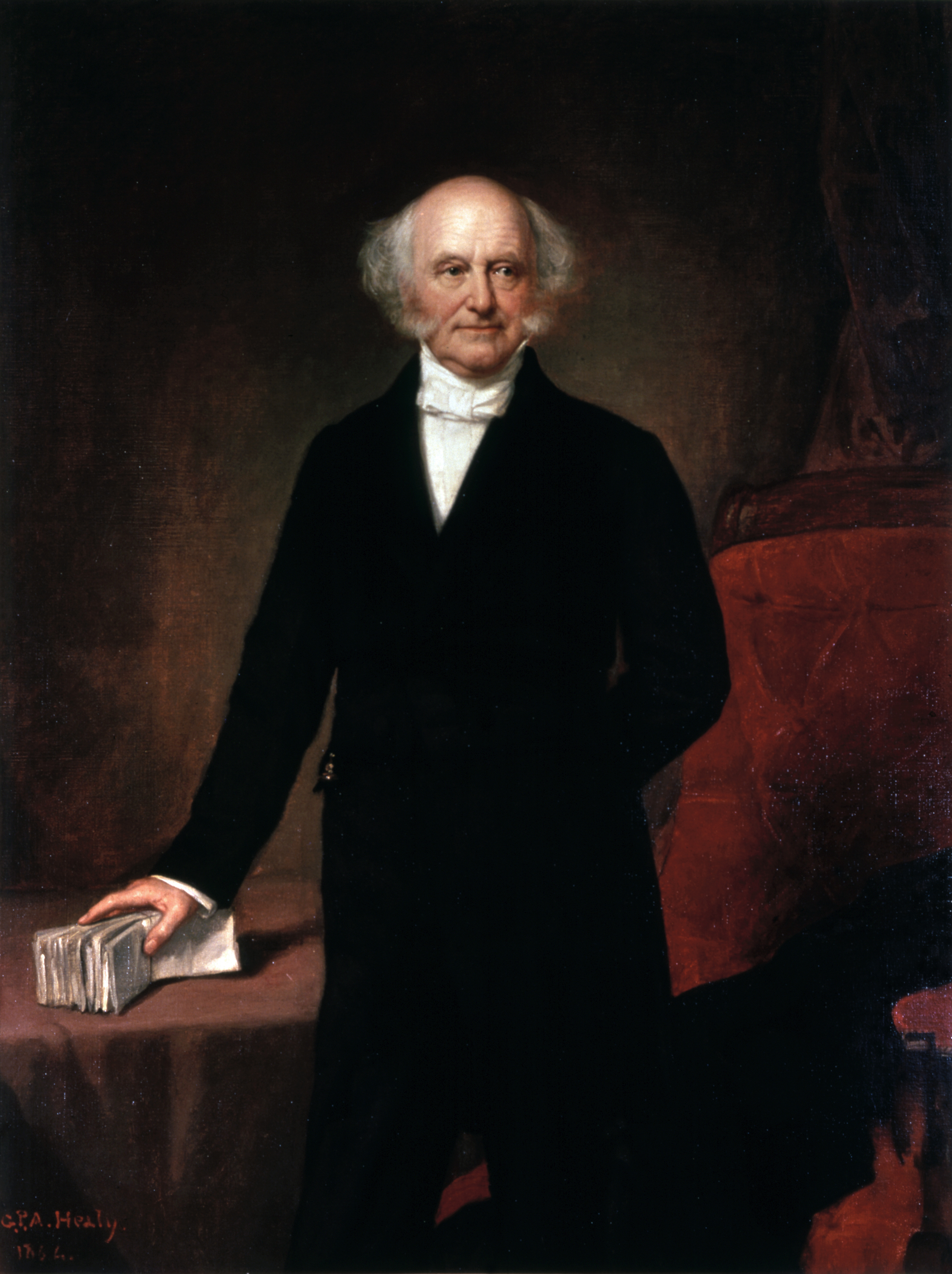 Official Presidential portrait of Martin van Buren